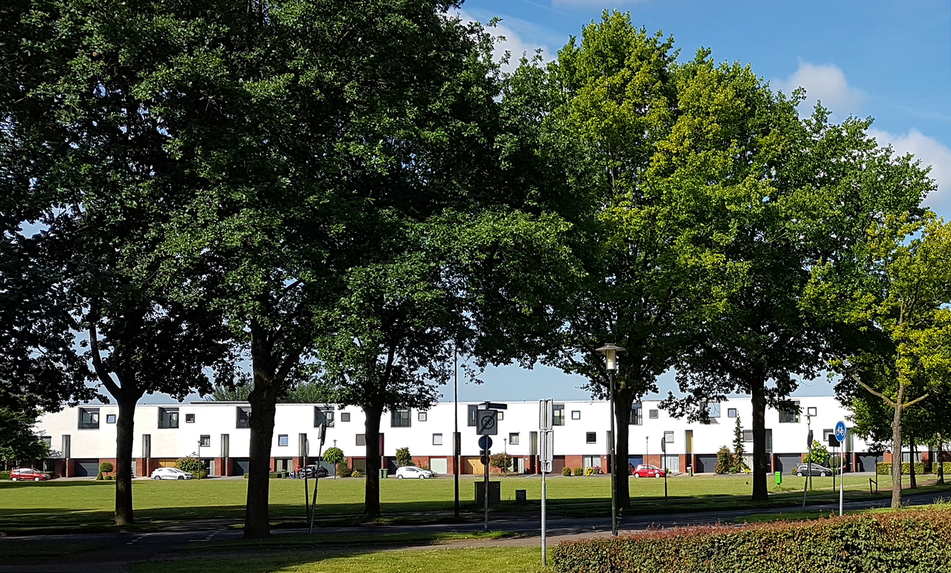 View of modern housing in Hazendans neighbourhood in Maastricht, Netherlands.